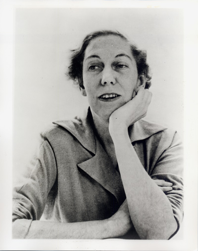 Photograph of the American writer Eudora Welty (1909–2001). First published on 21 April 1962.